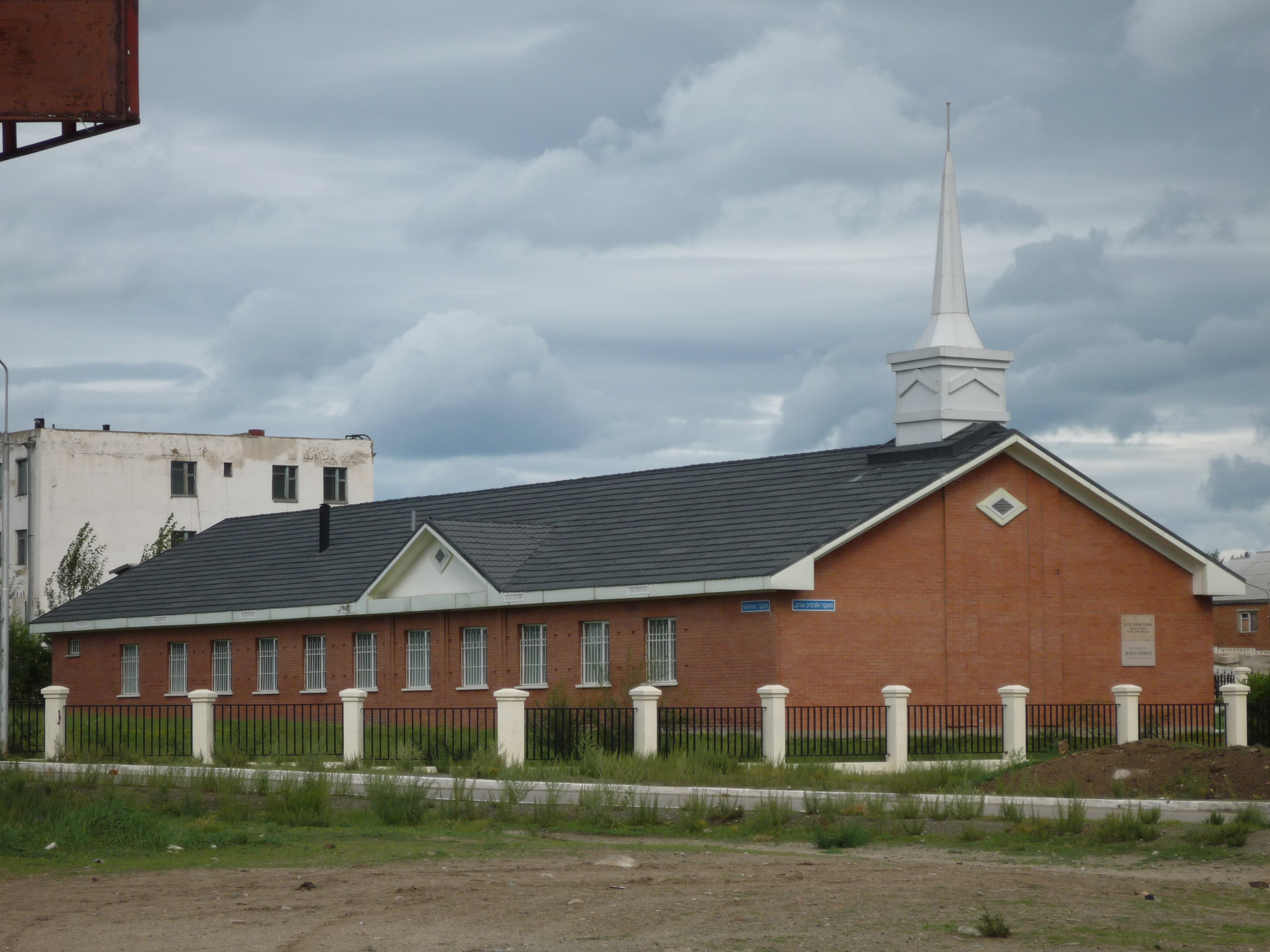 A local meetinghouse of The Church of Jesus Christ of Latter-day Saints in Sukhbaatar city, North Mongolia